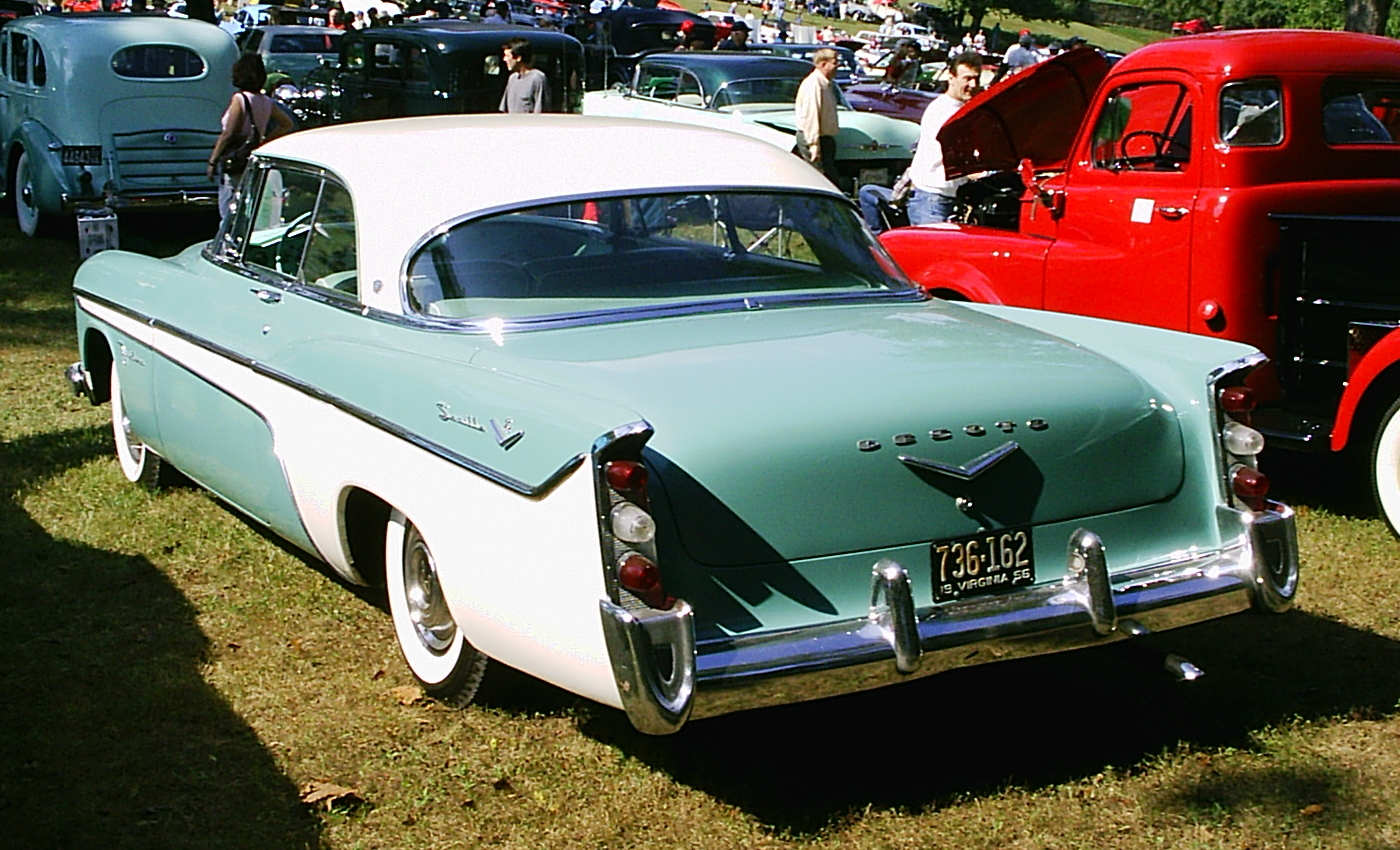 1956 De Soto Firedome Seville 2-door hardtop rear view